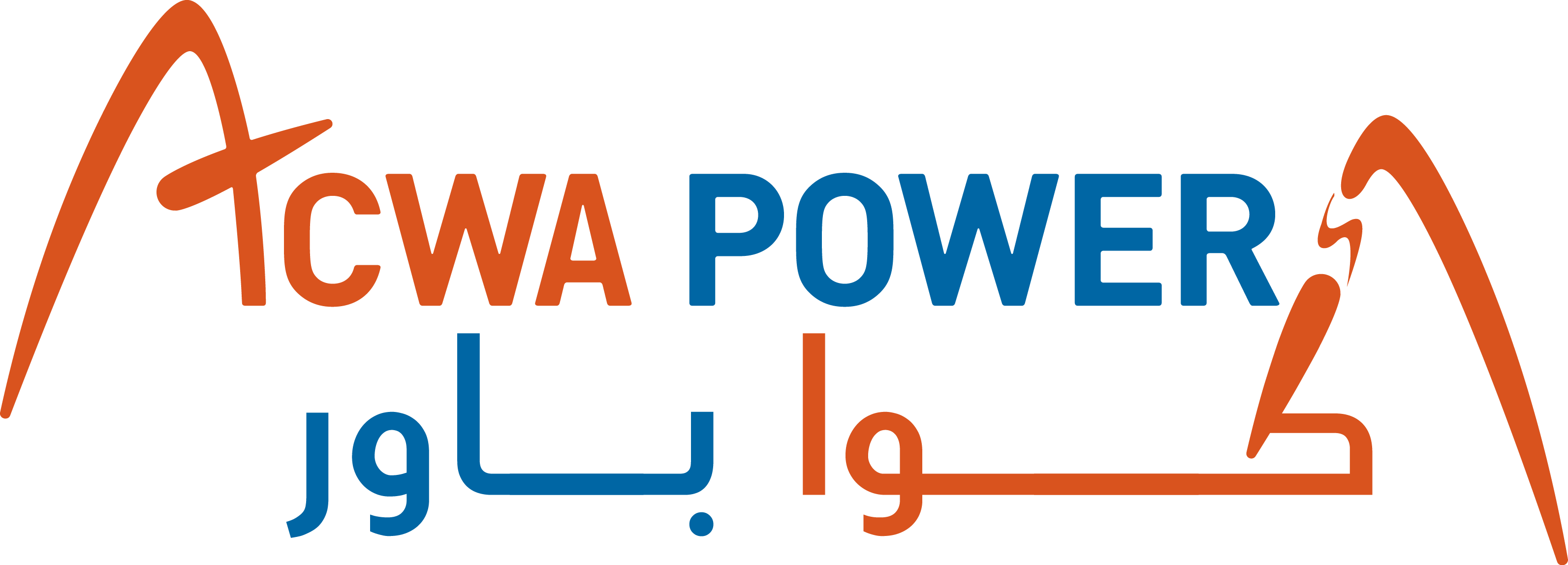 Updated logo of ACWA Power